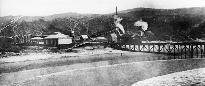 British Australian Tramway, Woolgoolga: BATCo’s Jetty Sawmill at jetty in Woolgoolga on which a horse-hauled 3ft 6in gauge tramway ran to a steam crane at its outer end (Neal Yates collection)